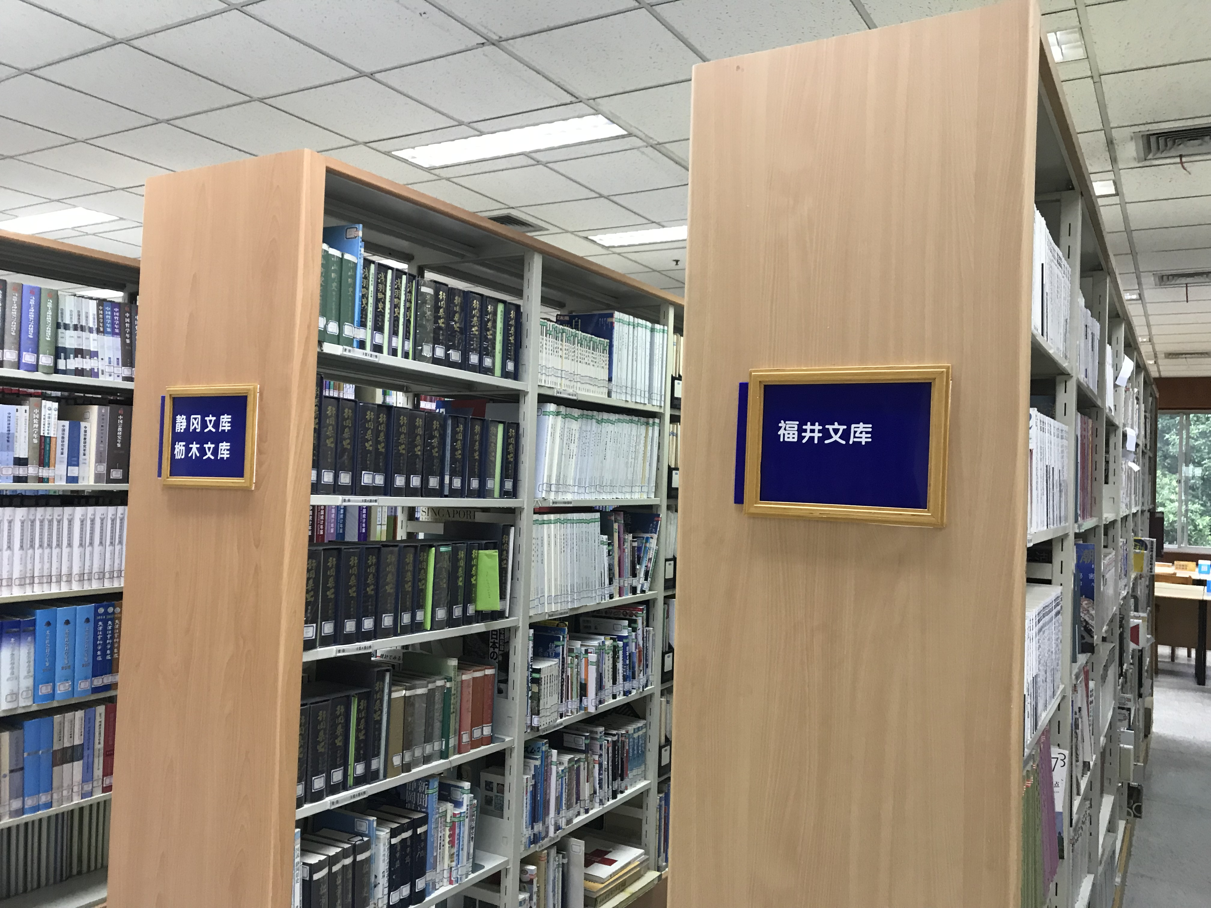 Books donated by Fukui, Tochigi and Shizuoka Prefecture.